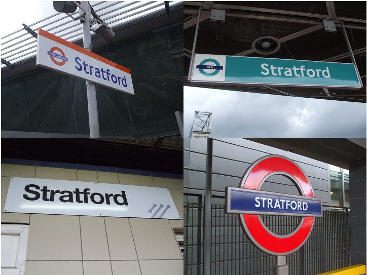 Collage of the different platform signage presently to be found at Stratford station in London. From top left clockwise: London Overground (platforms 1 and 2 at time of writing); Docklands Light Railway (platforms 4A and 4B); London Underground Jubilee line (platforms 13 to 15); and signage on both National Express East Anglia (platforms 5, 8 to 12) and London Underground Central line (platforms 3 and 6).